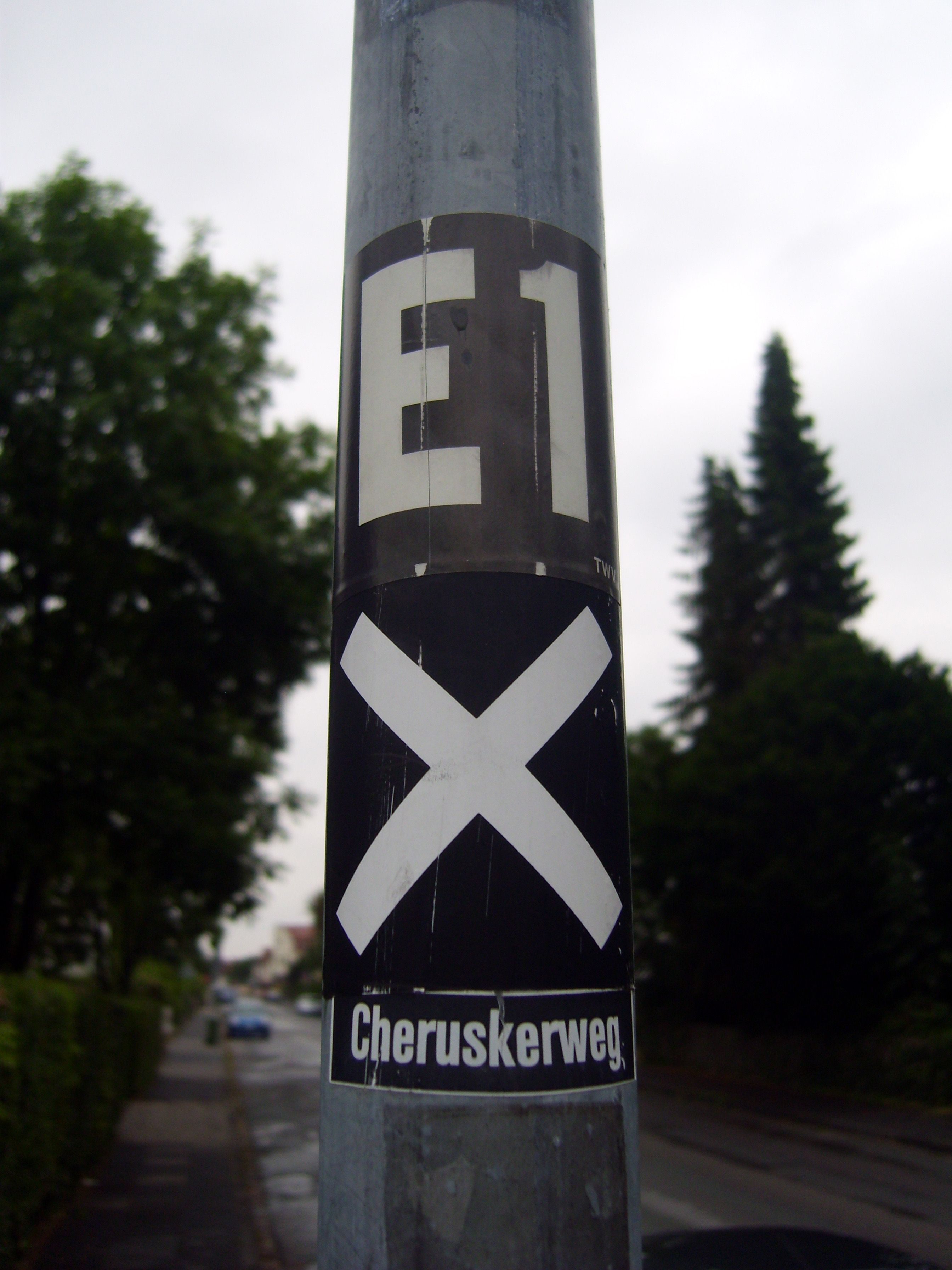 The picture shows the waymarking X3 of the walkway "Cheruskerweg" in Detmold, Germany, Europe and the marking of the Trans-Europe-Walkway "E 1".